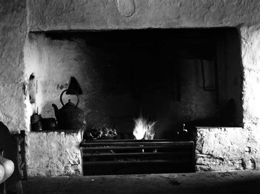 Old Irish Hearth Lough Doolin C. Clare